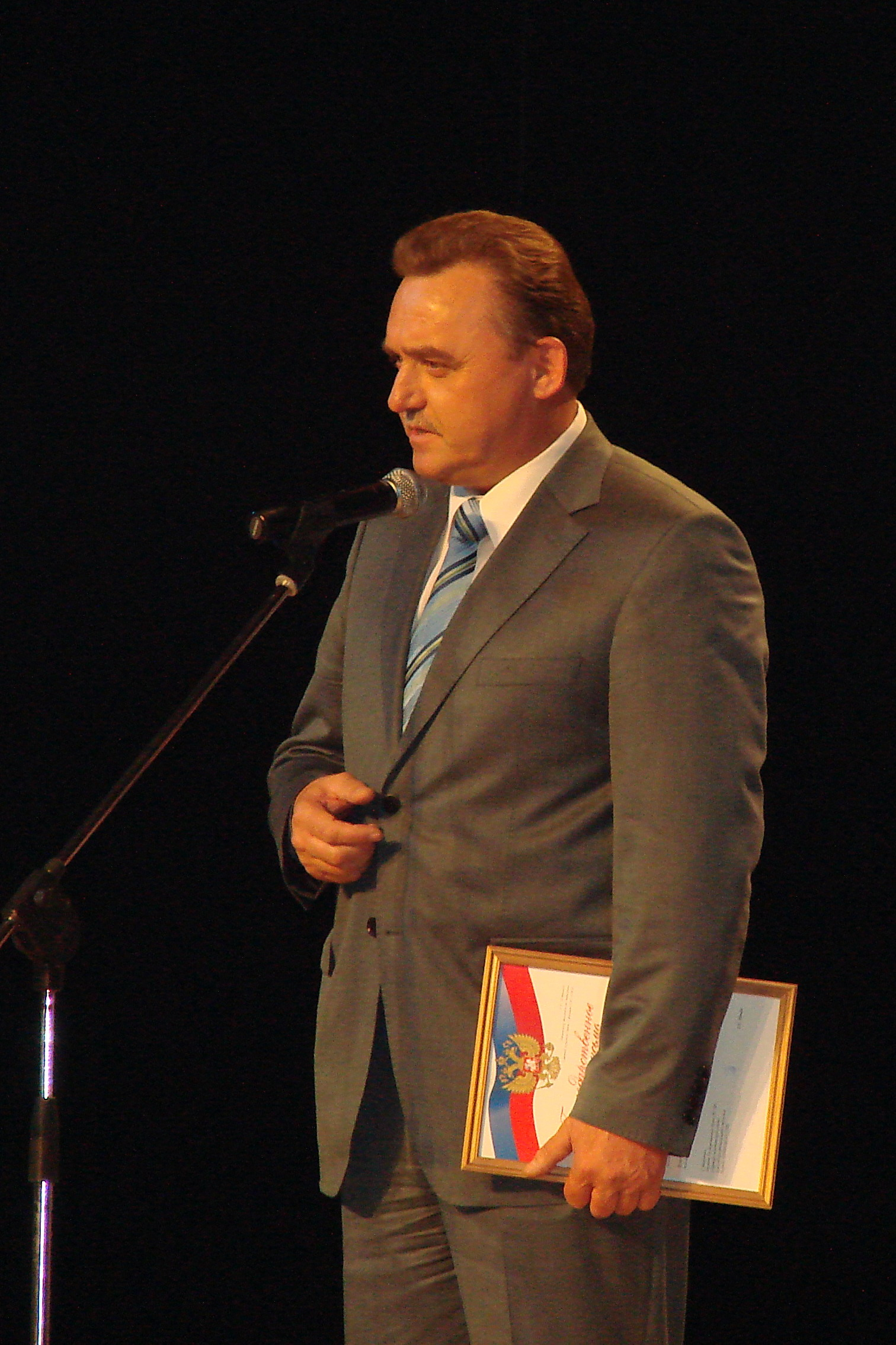 Head of Vologda city Evgeny Shulepov